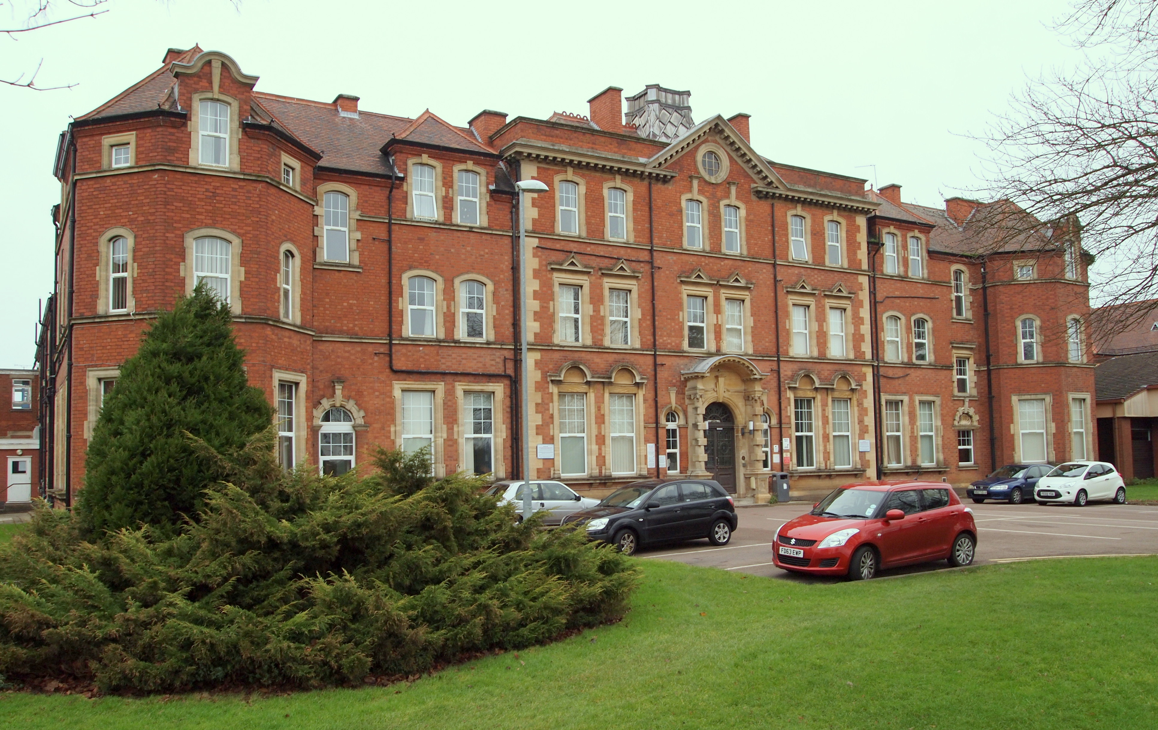 Leicester General Hospital, Evington, Leicester. The front elevation of Hadley Hall, the oldest part of the hospital and the original main entrance. It was the main administrative block of the North Evington Poor Law Infirmary (1905-1930), a hospital that cost of £79,575. It was designed to accommodate 512 patients and was considered ultra-modern and one of the largest and finest infirmaries in England. It was apparently known by the local people as “The Palace on the Hill”. It had 16 strictly segregated wards, each one named after a municipal ward in the city. It was surrounded by 6ft high spiked railings with gates were kept locked requiring visitors to apply for a pass in order to be allowed into the grounds or buildings. Later, the complex became known as Leicester City General Hospital (1930 - c.1948). It is now known as Leicester General Hospital and it hosts the headquarters of University Hospitals of Leicester NHS Trust (UHL). It is three miles east of Leicester city centre and has approximately 680 beds.